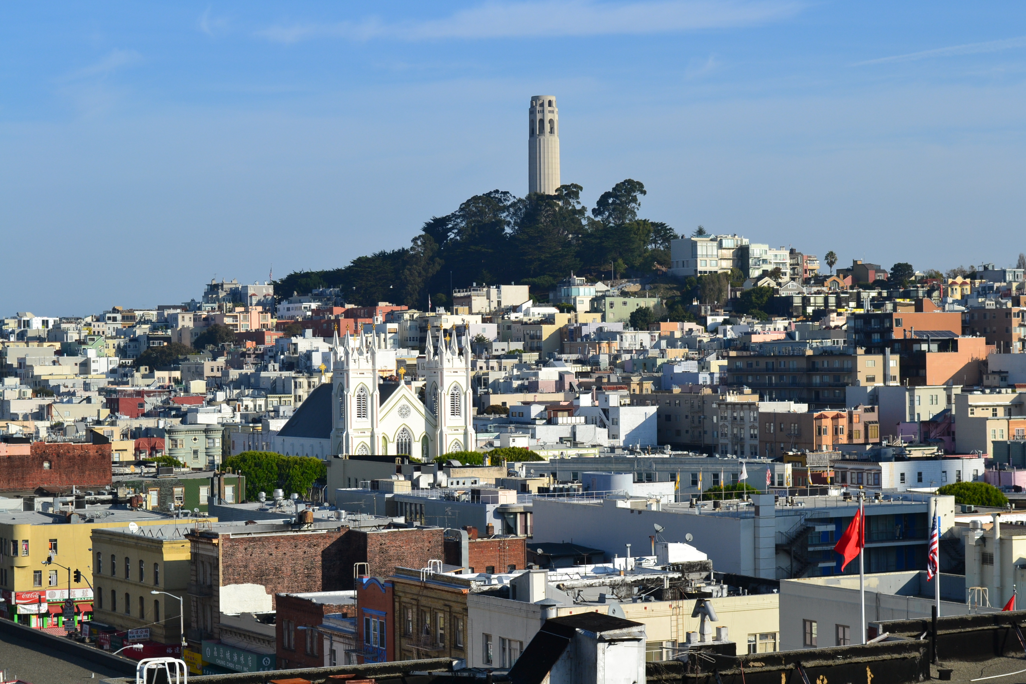 Telegraph Hill